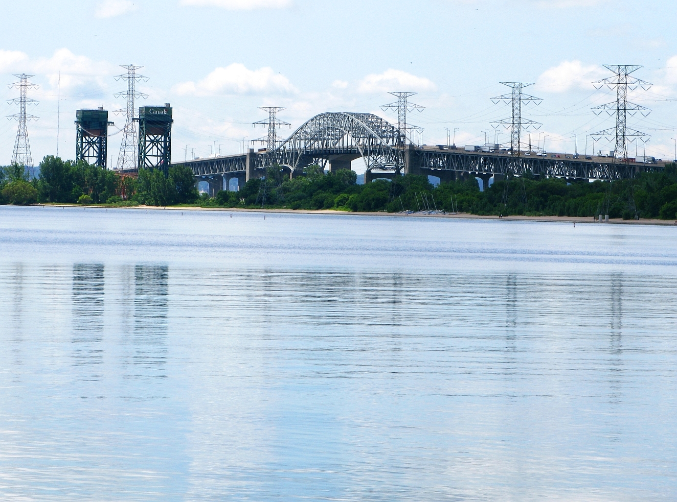 Burlington Bay James N. Allan Skyway - Hamilton, Ontario, Canada. Photo taken from Burlington, Ontario, showing Lake Ontario and bridge.